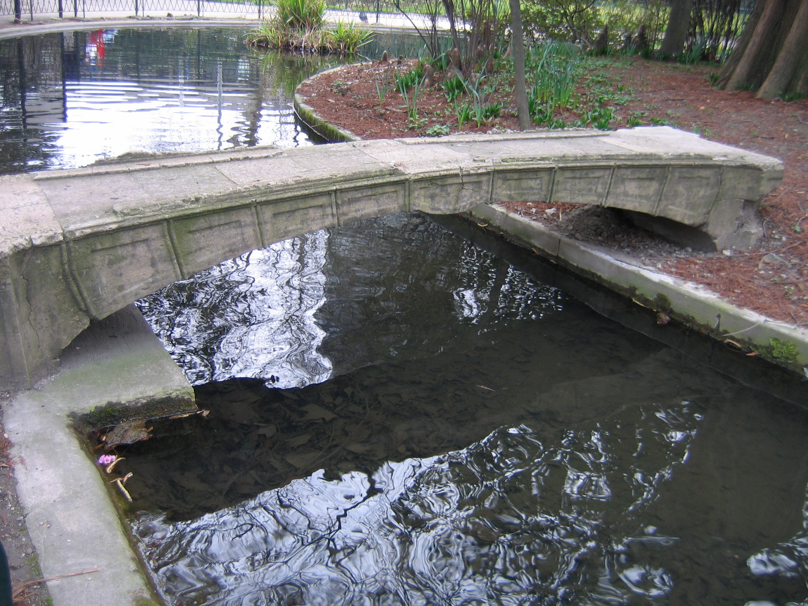 The first concrete bridge in the world, built by Joseph and Louis Vicat in Grenoble's Jardin des Plantes in 1855